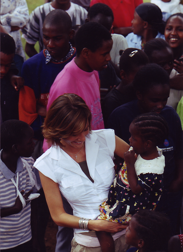 Work visit Patricia Faessler, Director International Relations "Dance 4 Africa" in 2001, Nairobi, Kenia